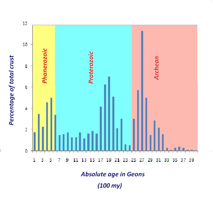 Age distribution of crust formation in percentage of total crust. Ages are given in geons (100 my). Redrawn after Condie (2006).